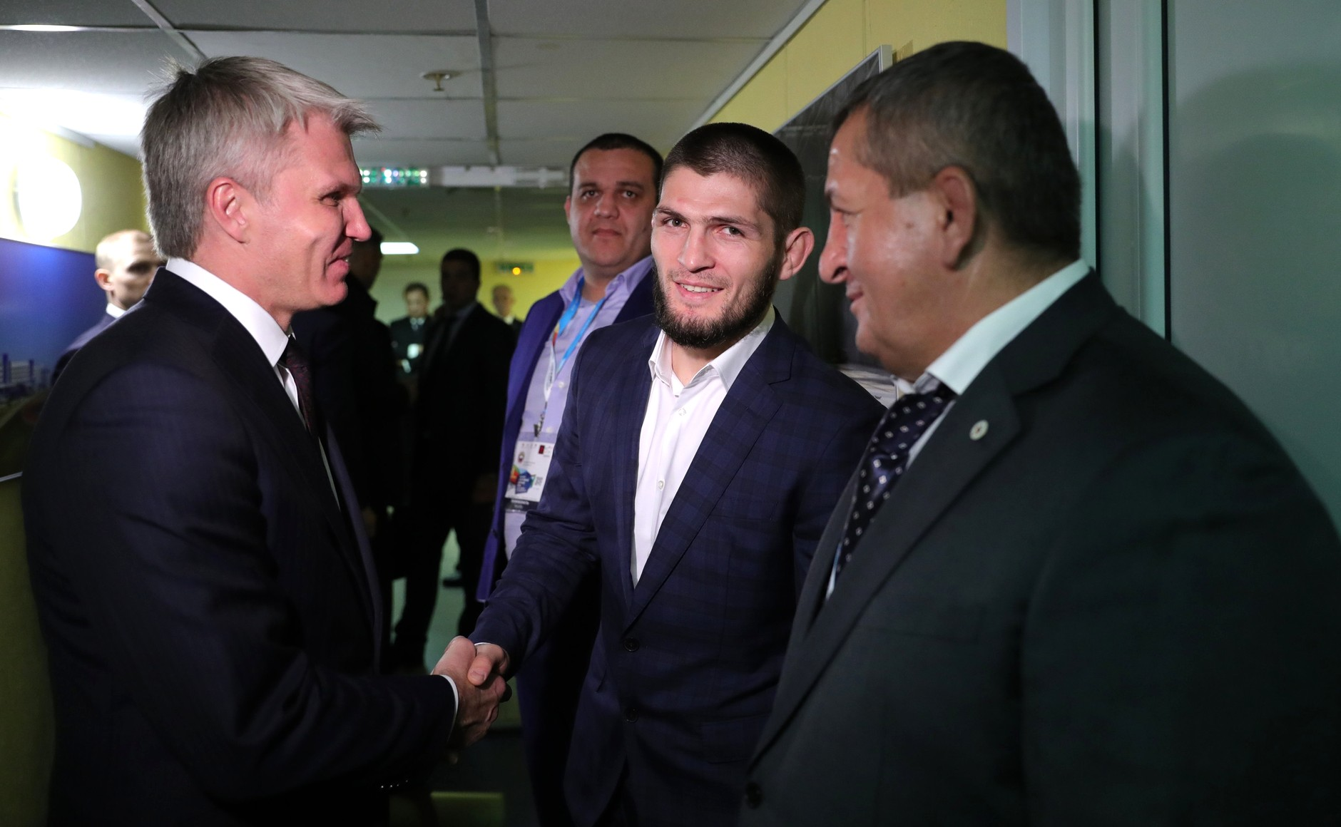 Sports Minister Pavel Kolobkov, left, congratulated Khabib Nurmagomedov on winning the UFC Championship. On the right: the athlete’s father and coach Abdulmanap Nurmagomedov